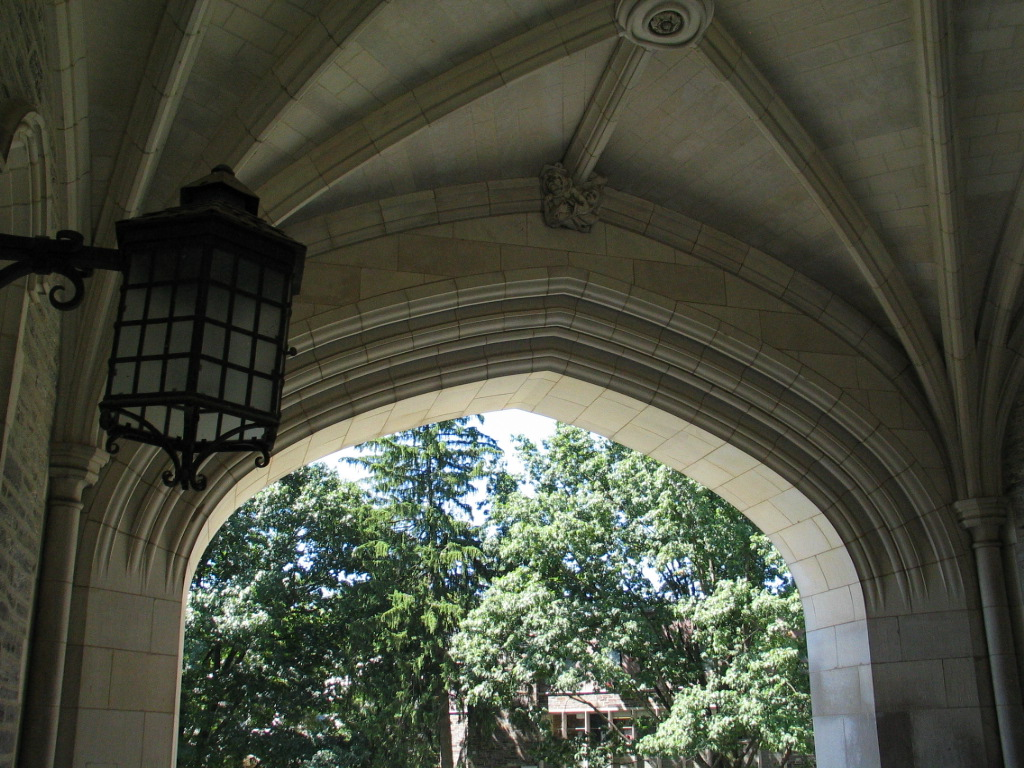 Blair Arch characterizes many of the campus buildings, with beautifully decorated archways and lanterns.